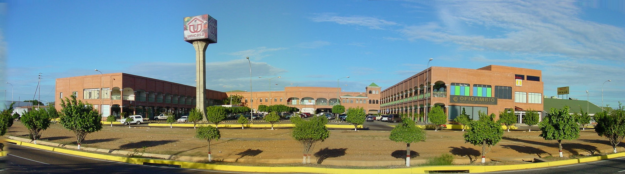 centro comercial